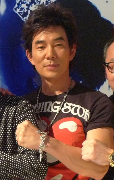 Richie Ren, This image is cut from the original GFDL licensed pic source